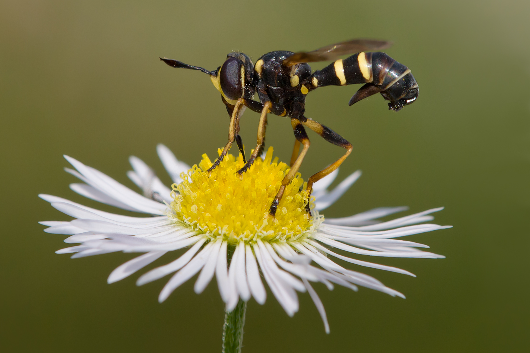 Conops flavipes